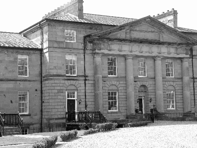 Lancaster Moor Hospital The county lunatic asylum, on Lancaster Moor, established in 1816, is a spacious quadrangular structure of stone, with a handsome portico of the Doric order, and, with the gardens and grounds, occupies 50 acres of land; it was erected at an expense of £175,000, including the furniture. from A Topographical history of England 1848 (British History Online) Architect: Thomas Standen